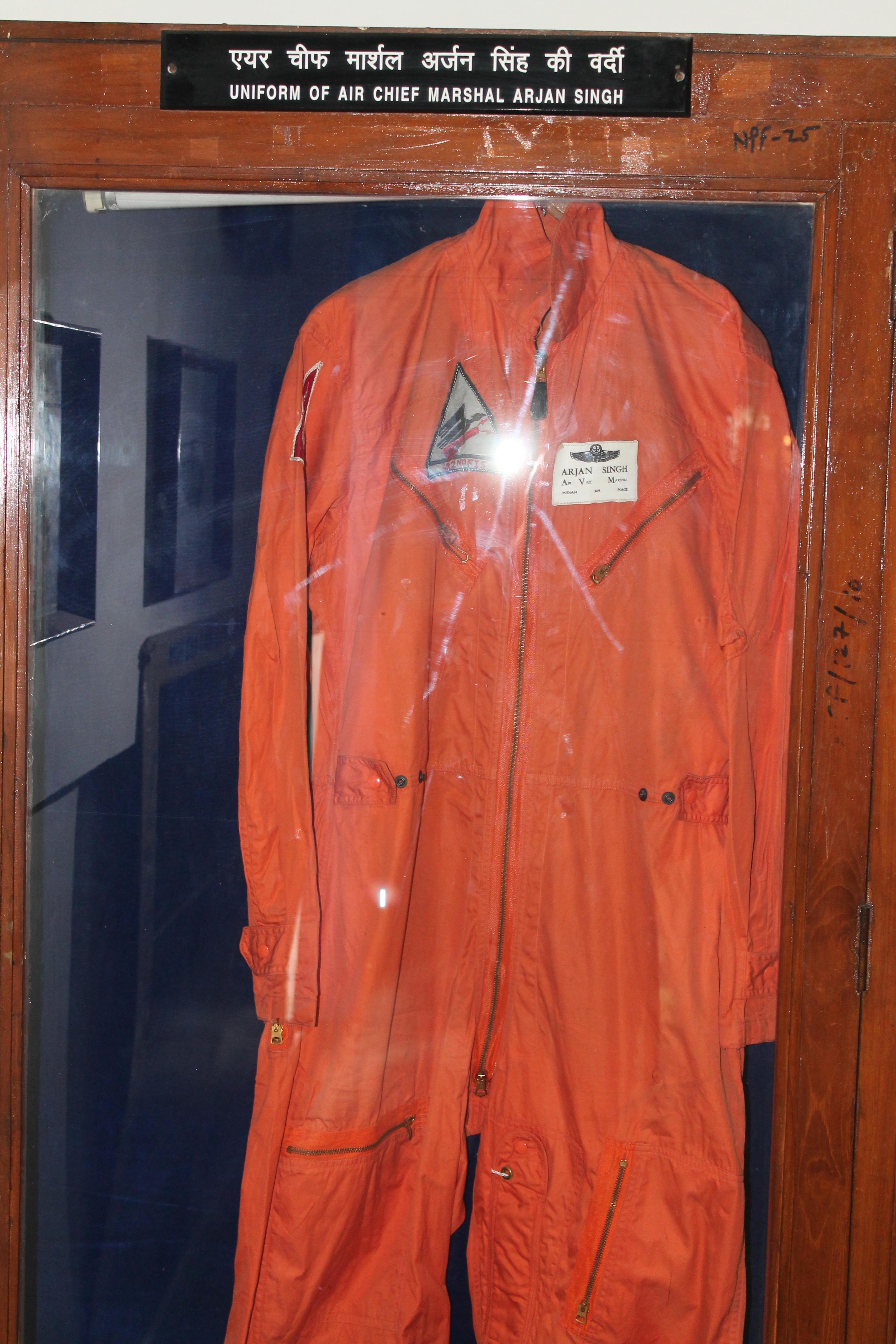 Uniform of Air Chief Marshal Arjan Singh, later Marshal of Indian Air Force.